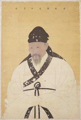 Portrait of Han Wonjin, Chungcheongbuk-do Tangible Cultural Property No. 334